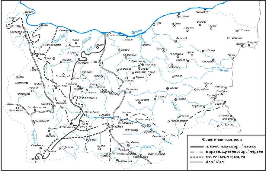 Map showing phonological isoglosses of Bulgarian speech.